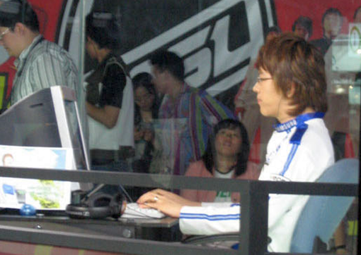 Stork MSL Finals